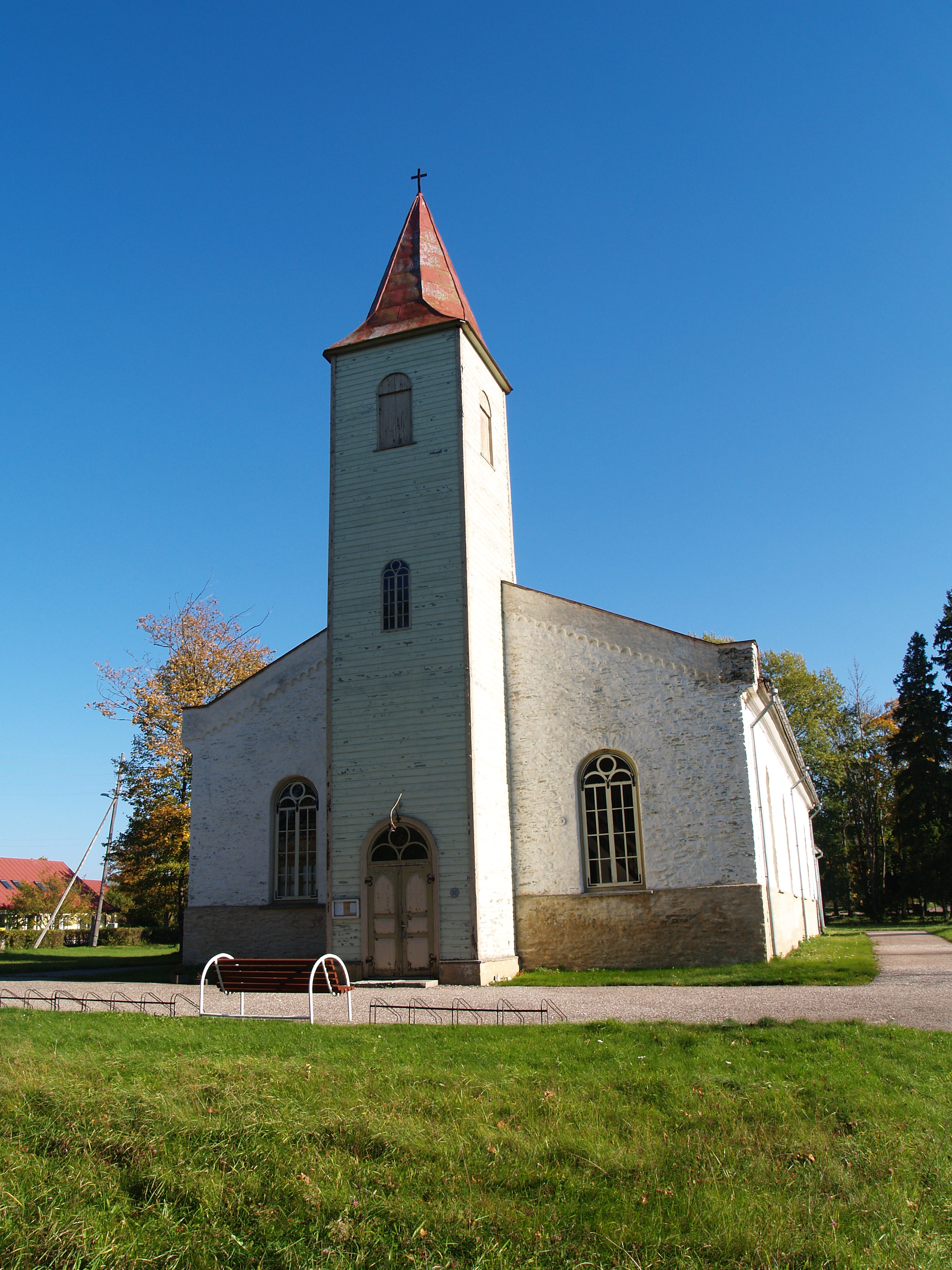 Kärdla Church